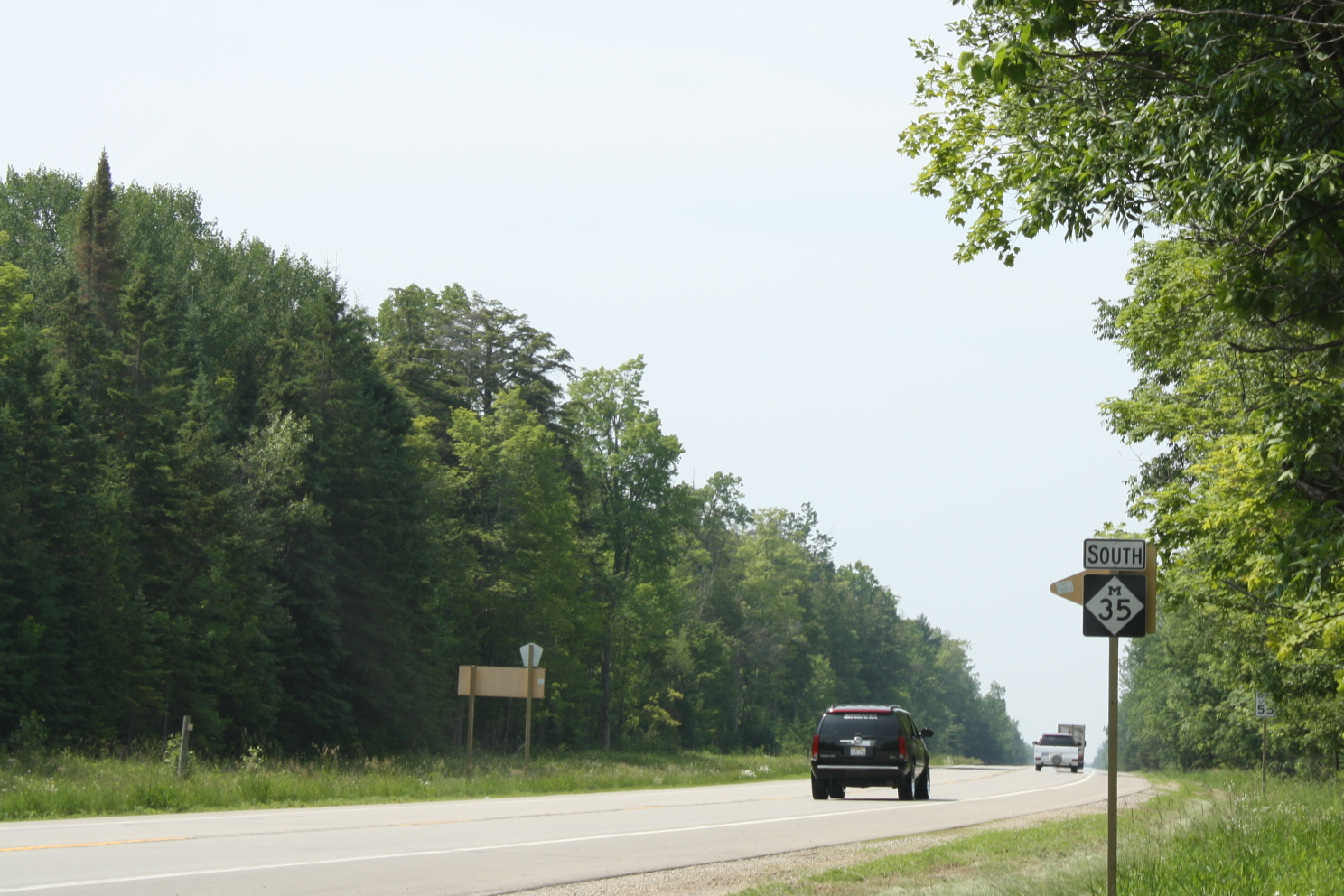 Looking south at M-35 through the forest, taken from highway G-12.